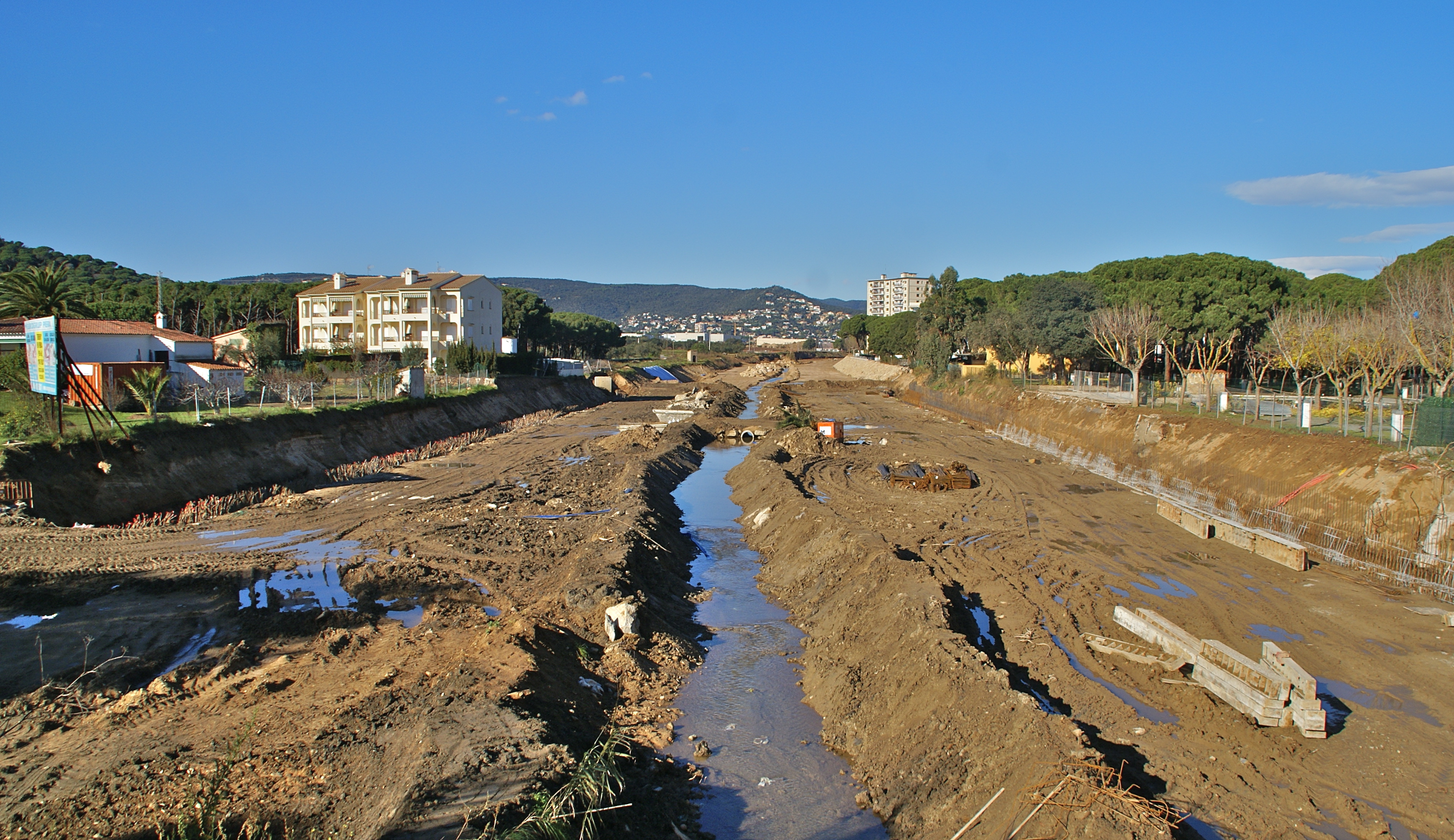 Calonge (Sant Antoni de Calonge), Catalonia: The river Riera de Calonge in nord west directiion